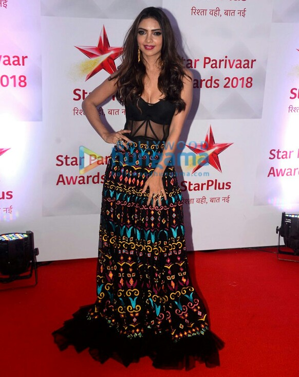 Pooja Banerjee at Star Parivaar Awards 2018